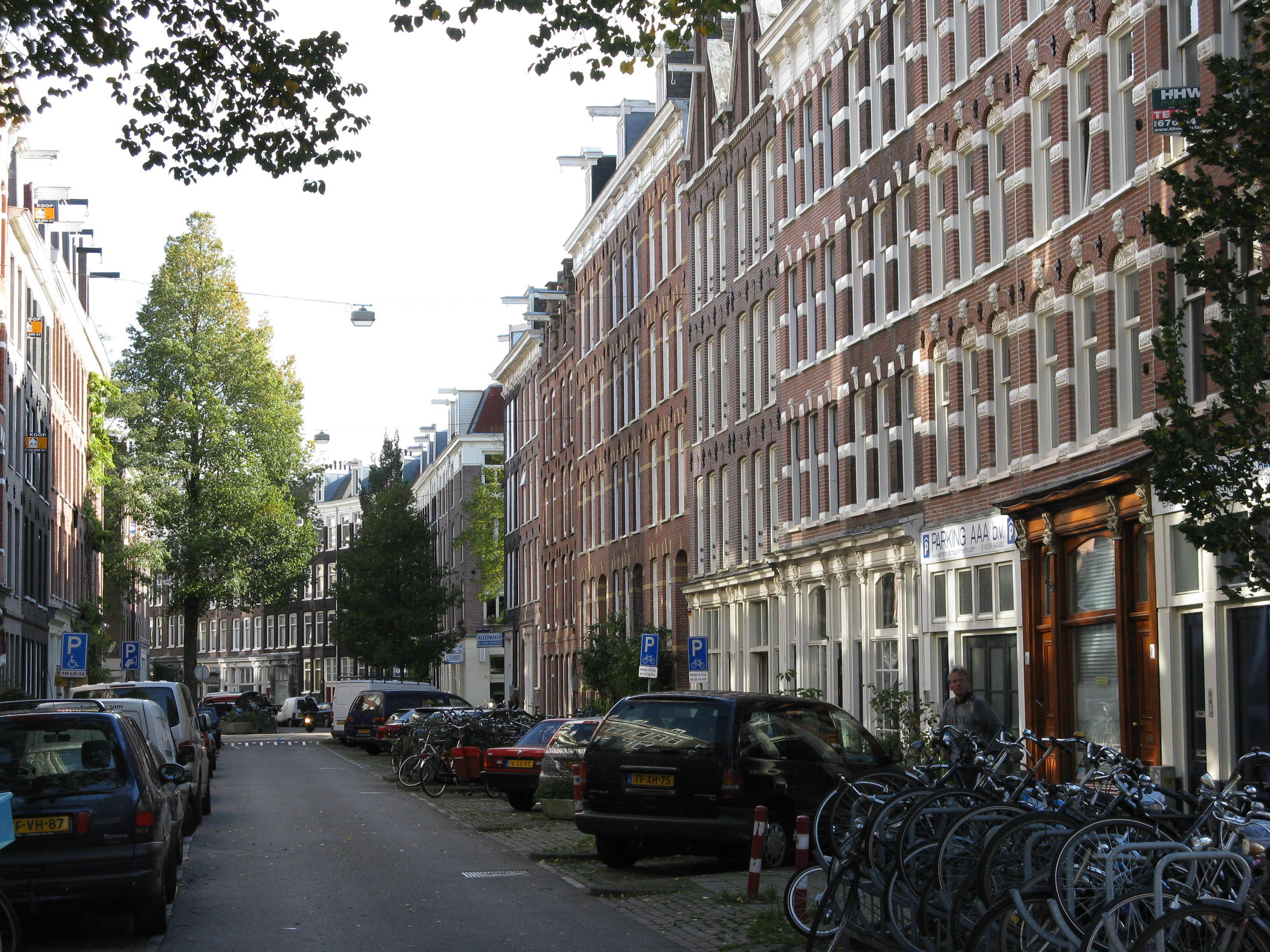 Gerard Doustraat, Amsterdam. Typical street facade in the Pijp